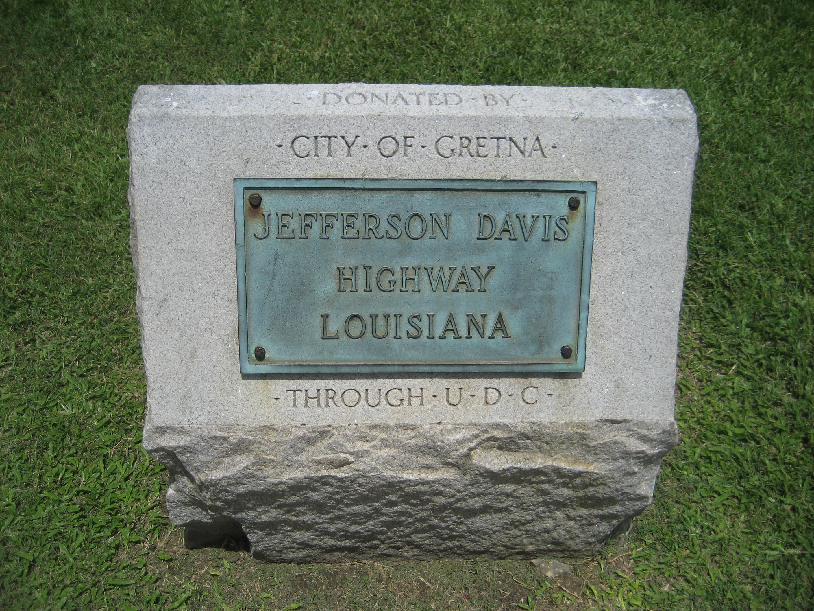 Gretna, Louisiana: Stone marker for the old Jeff Davis Highway